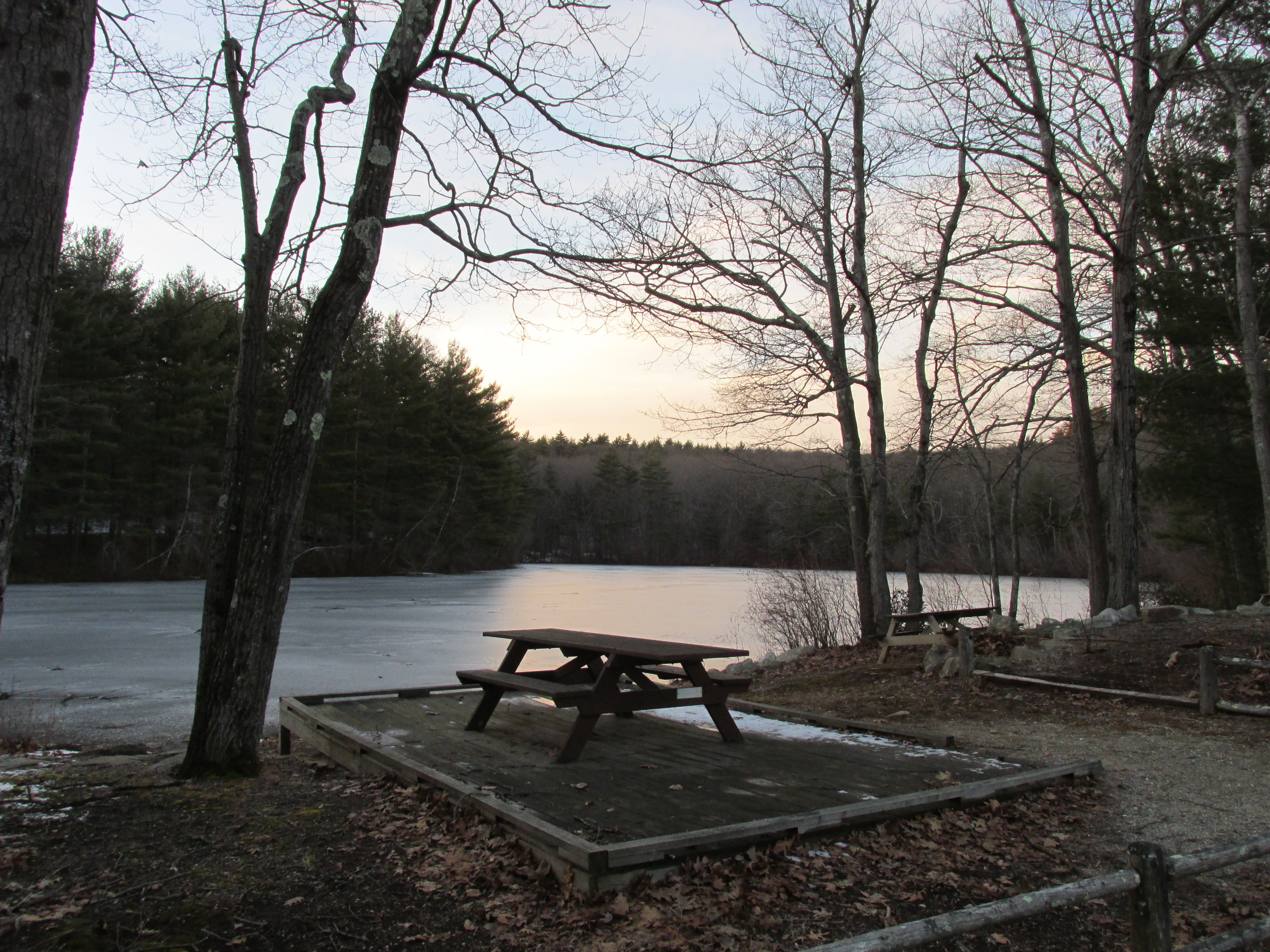 Chickering Pond, Rocky Woods, Medfield Massachusetts